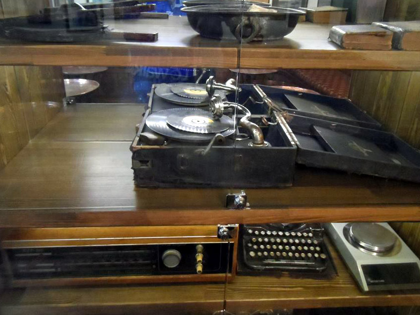 Piyer Loti Museum